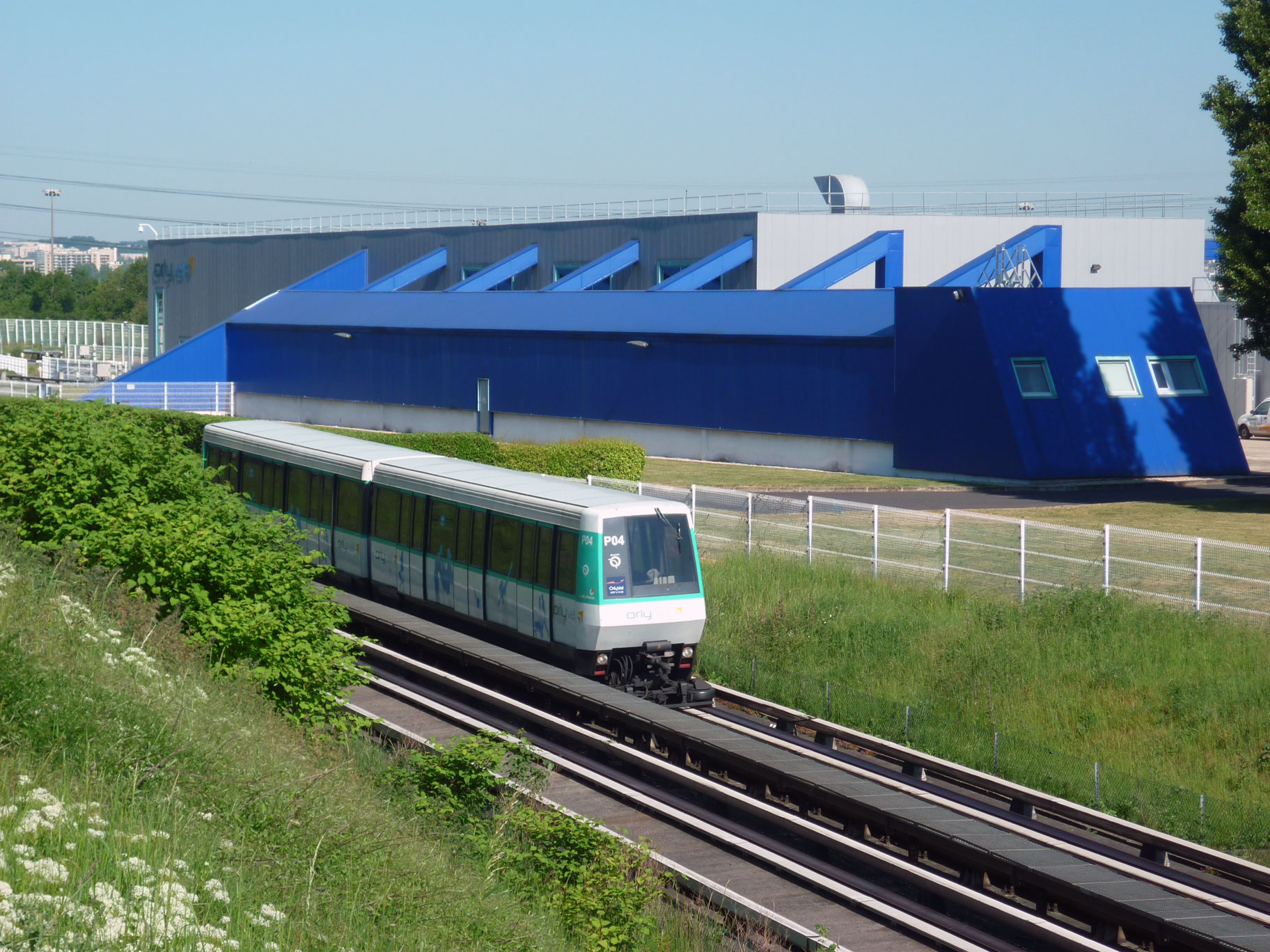 Orlyval's workshop with a rolling stock, in Wissous